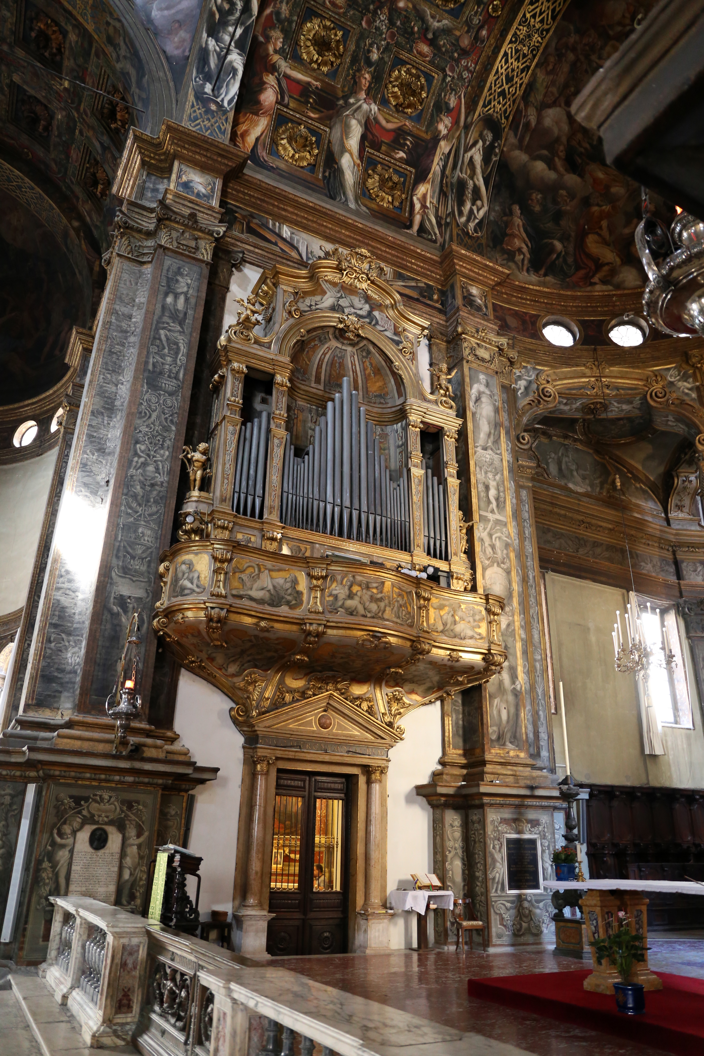 Santa Maria della Steccata (Parma) - Interior